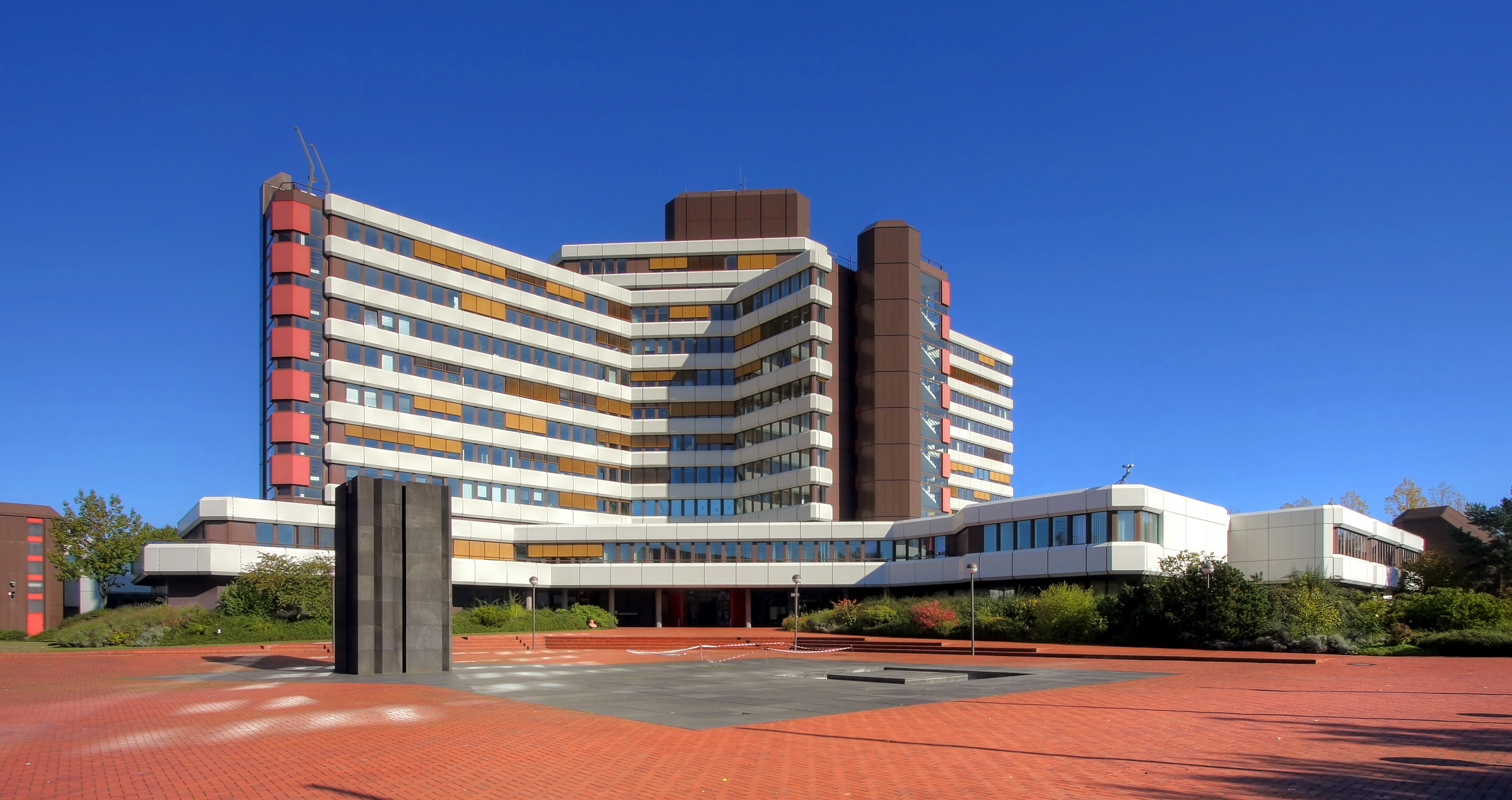 Head office of the Federal Office of Administration in Cologne, along Barbarastraße/Amsterdamer Straße. Year: 1984. Architect and construction firm: Hauptbauleitung (HBL) Köln, Finanzbauverwaltung NRW. Foreground, sculpture "Lichtdurchlässige Bündelsäule" by Erwin Heerich, 1979.